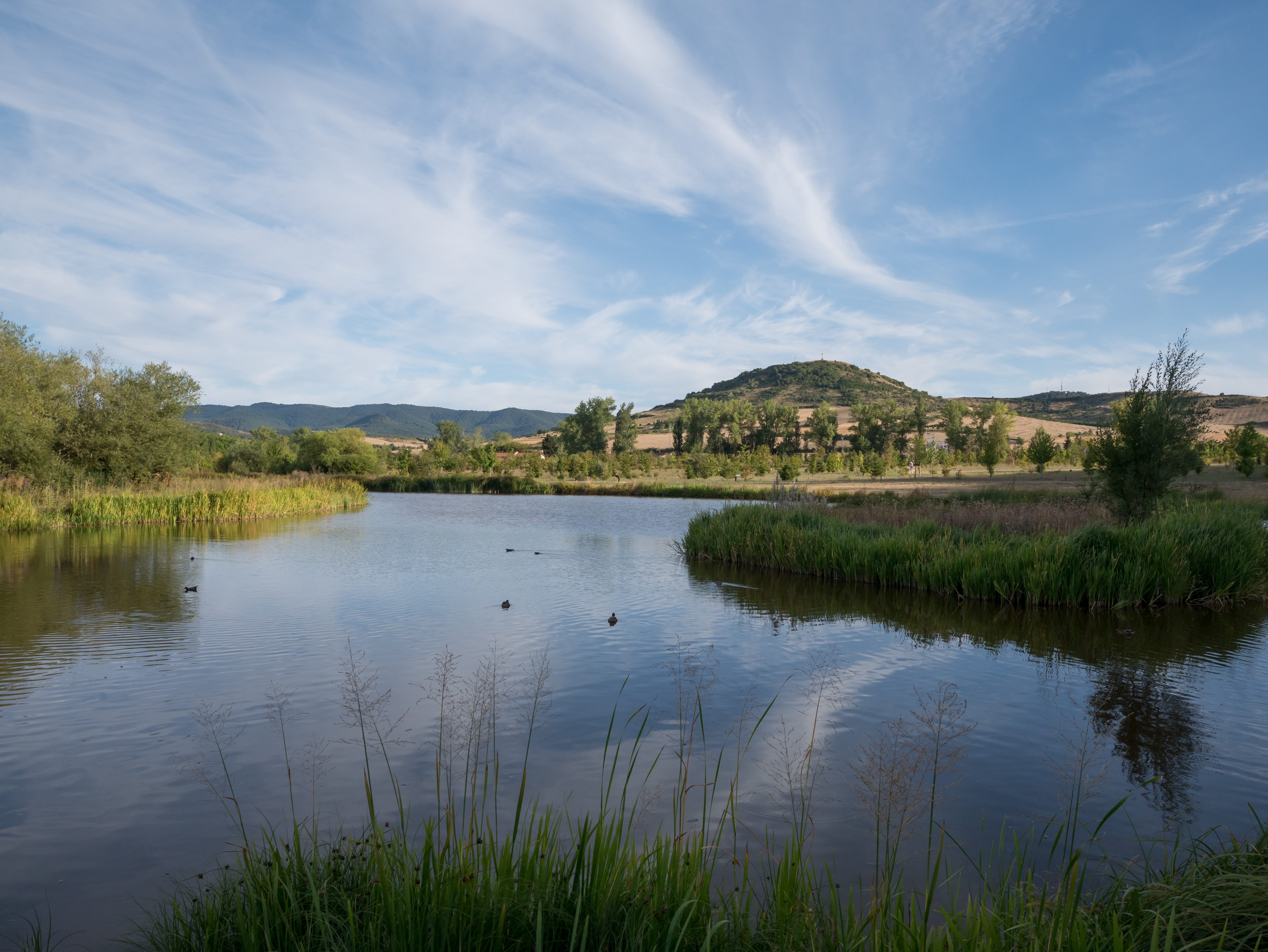 Lake of Olarizu at the Botanical Garden. Vitoria-Gasteiz, Basque Country, Spain